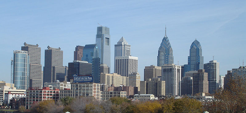 A new updated picture of the philadelphia skyline with the new comcast building.